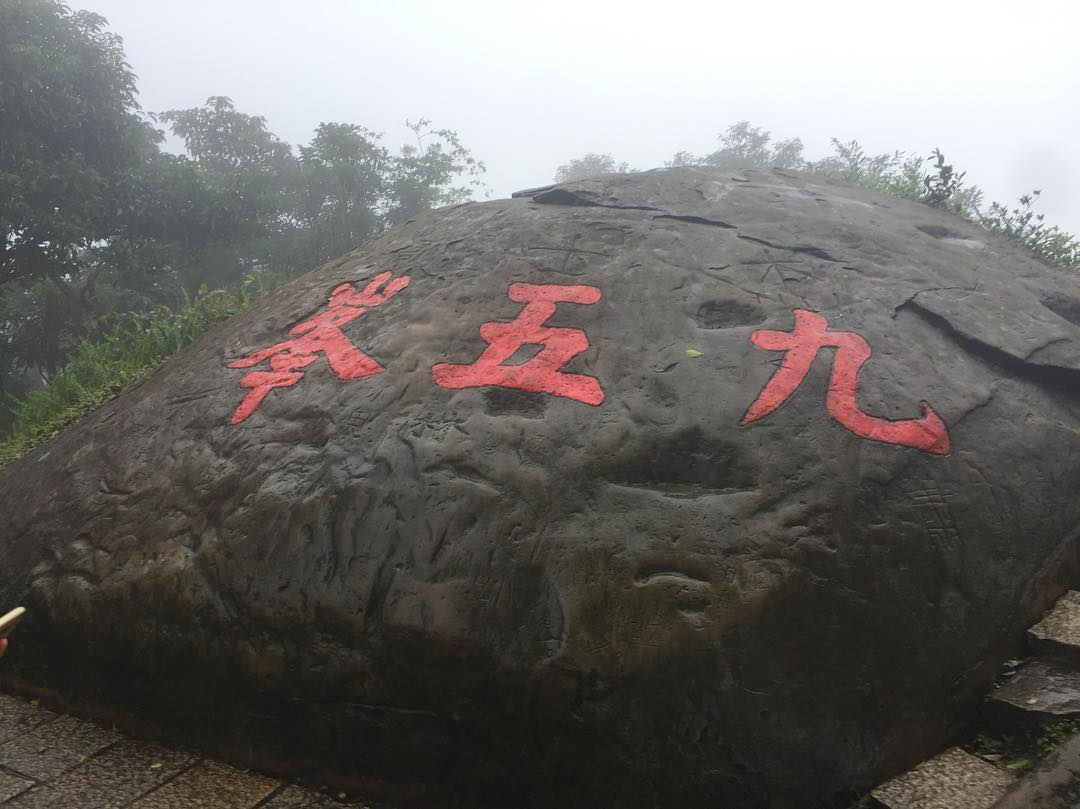 Stone in Jiuwufeng.